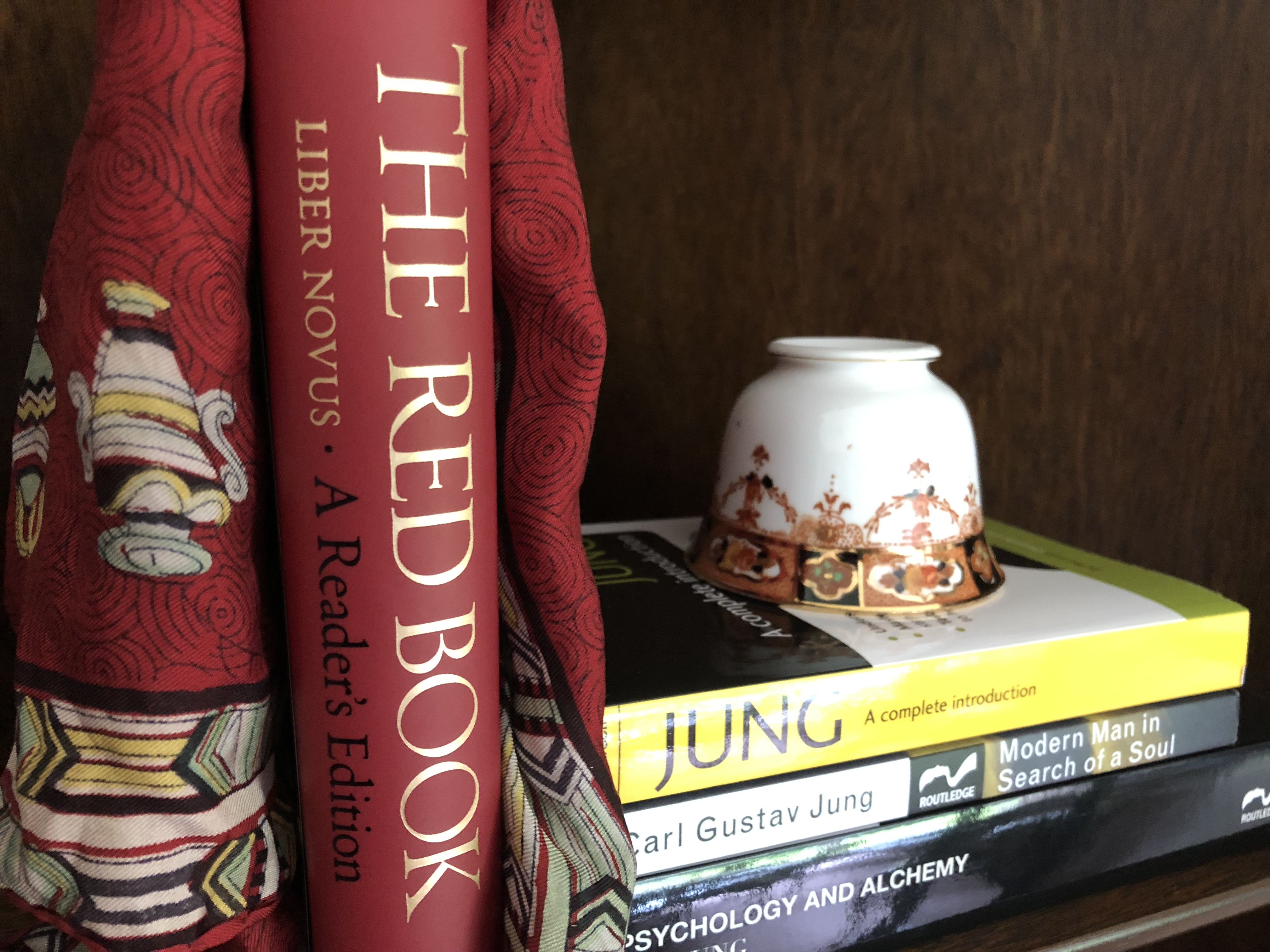 Carl Jung's Liber Novus (Red Book) - for those that enjoy "nocturnal work", also Psychology and Alchemy a weighty and somewhat complex text examining relationships between alchemical and psychological symbolism. Interesting read from an intellectual giant and father or modern psychology.